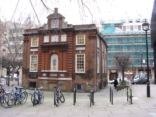 The Blewcoat School, Caxton Street, London SW1